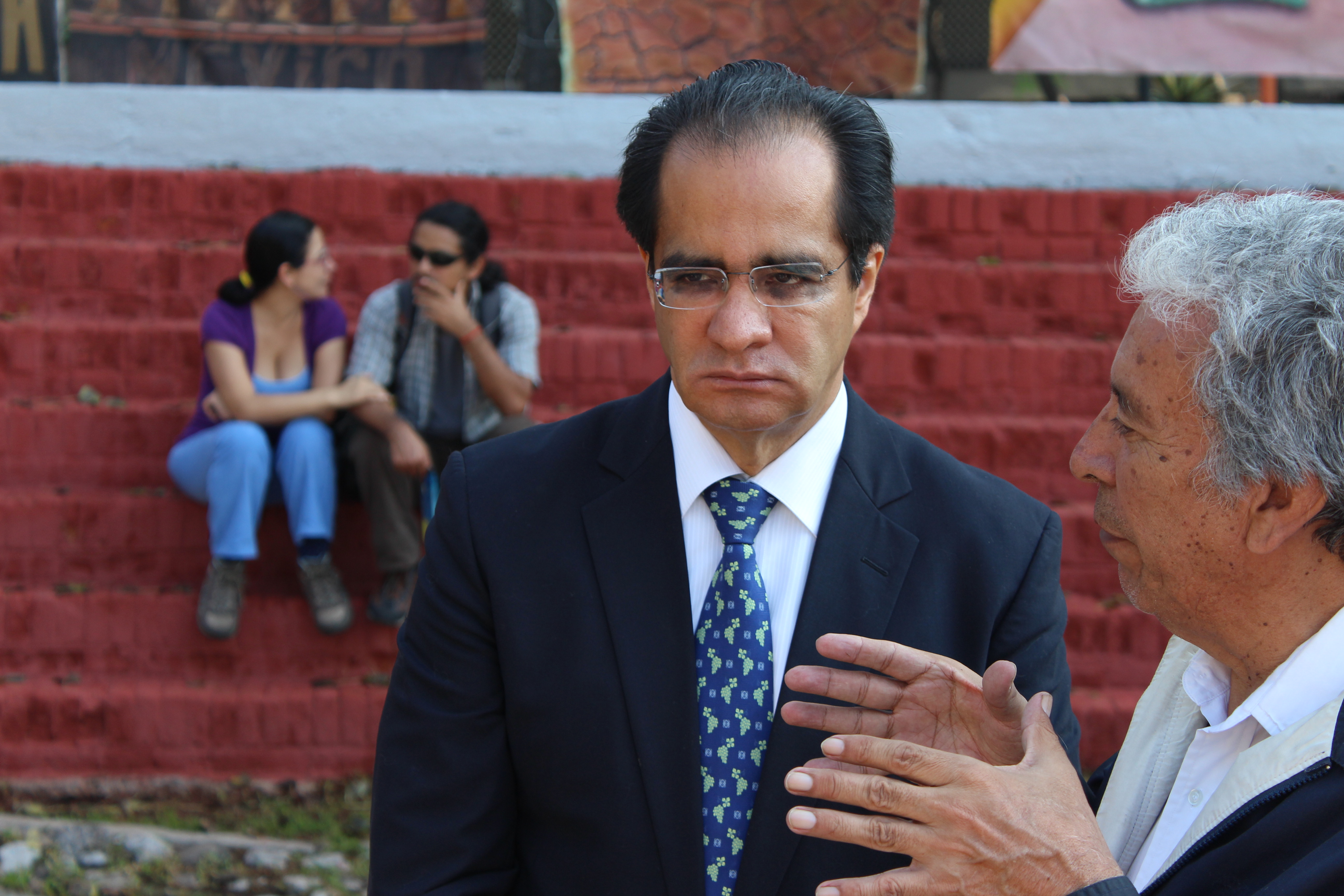 30 years of the 1985 earthquakes Memorial service by neighbors and survivors. Sundial, Conjunto Urbano Nonalco Tlatelolco, Mexico City, Mexico.